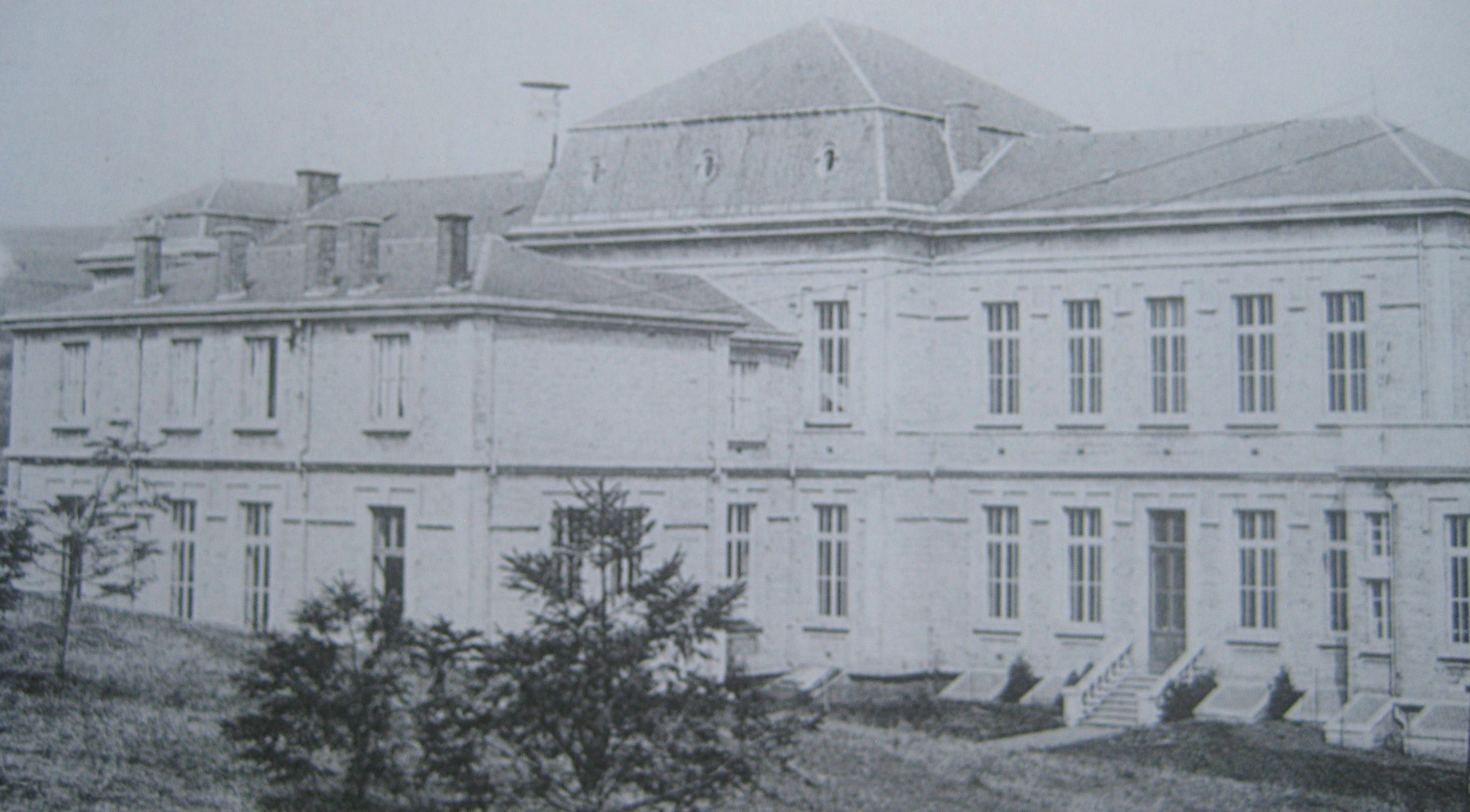 Description hopital Micheville Villerupt Date7 September 2011Sourcemon appareil photoAuthorAimelaimePermission (Reusing this file) hopital Micheville Villerupt